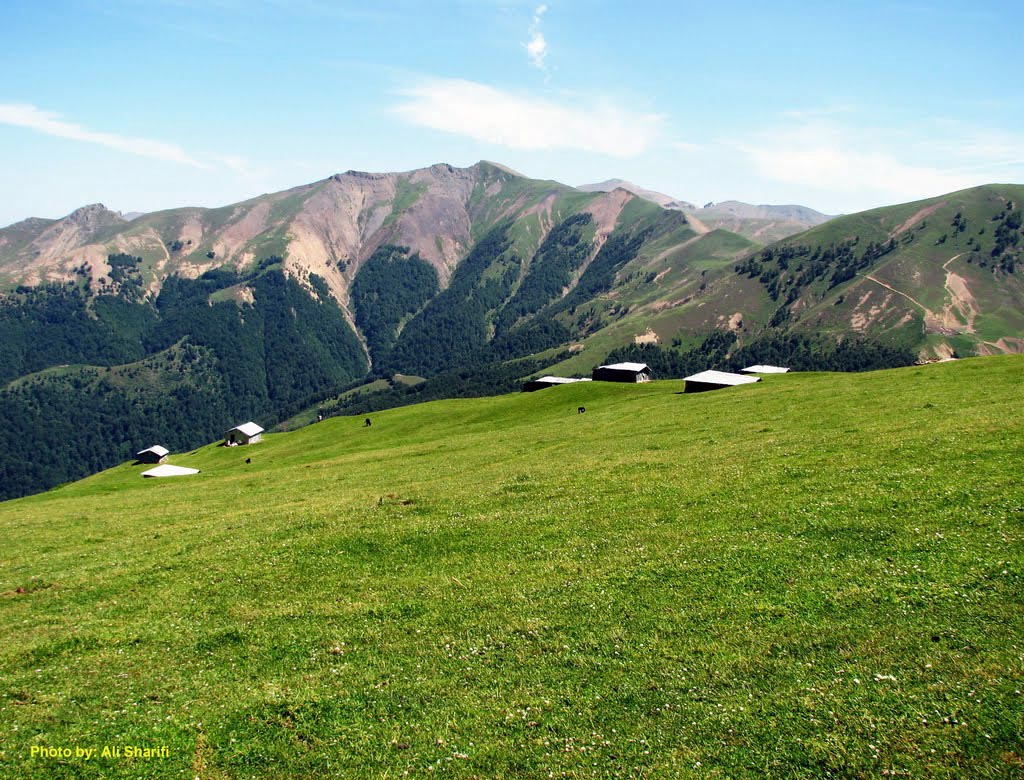 Gasht Rodkan (Persian: گشت رودخان) Protected Area in Fuman County.